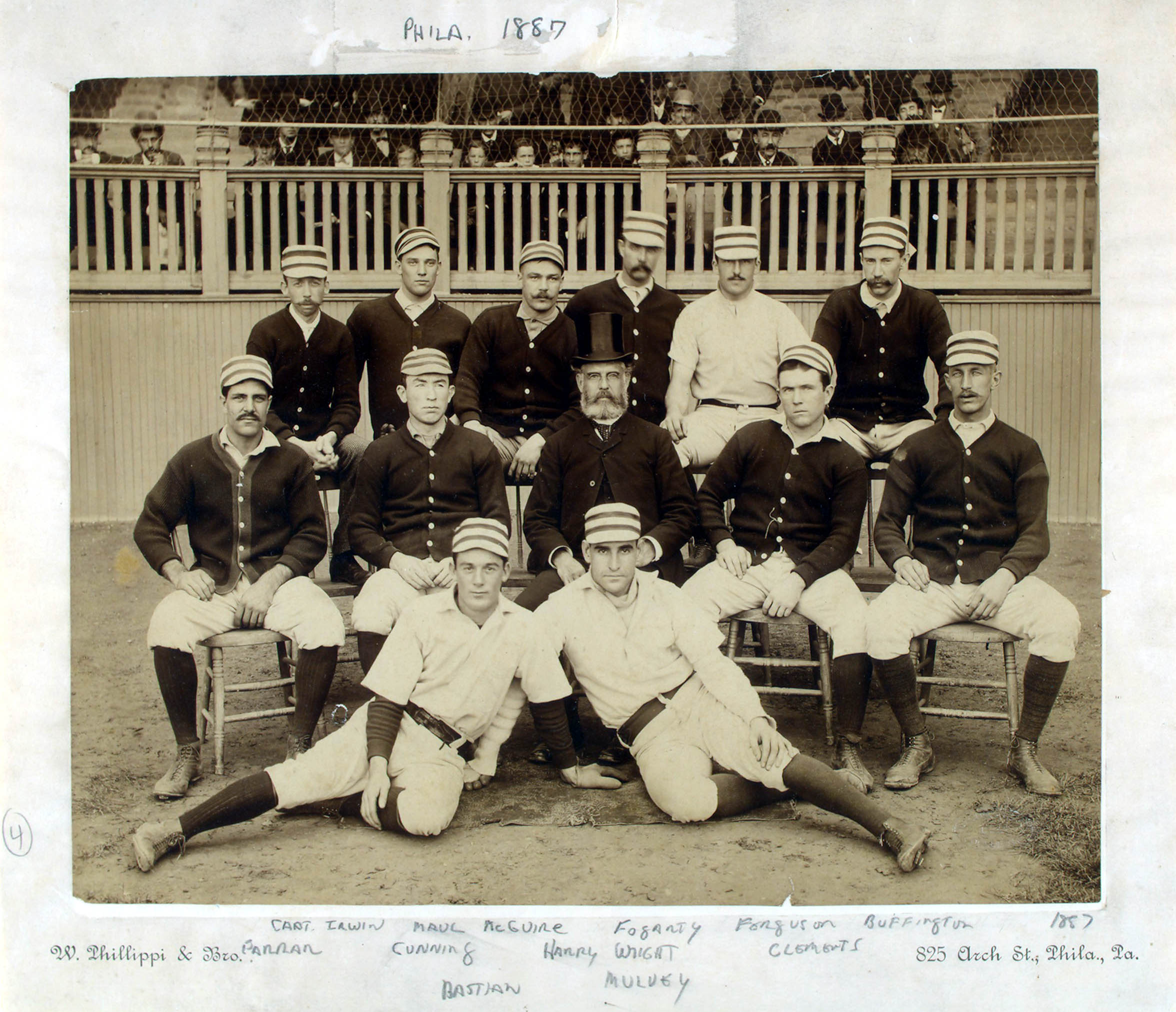 The 1887 Philadelphia Quakers Baseball ClubTop row, left to right: Capt. Arthur Irwin, Al Maul, Deacon McGuire, George Wood, Jim Fogarty, Charlie FergusonMiddle row, left to right: Sid Farrar, Tom Gunning, Harry Wright, Jack Clements, Charlie BuffintonBottom row, left to right: Charlie Bastian, Joe Mulvey